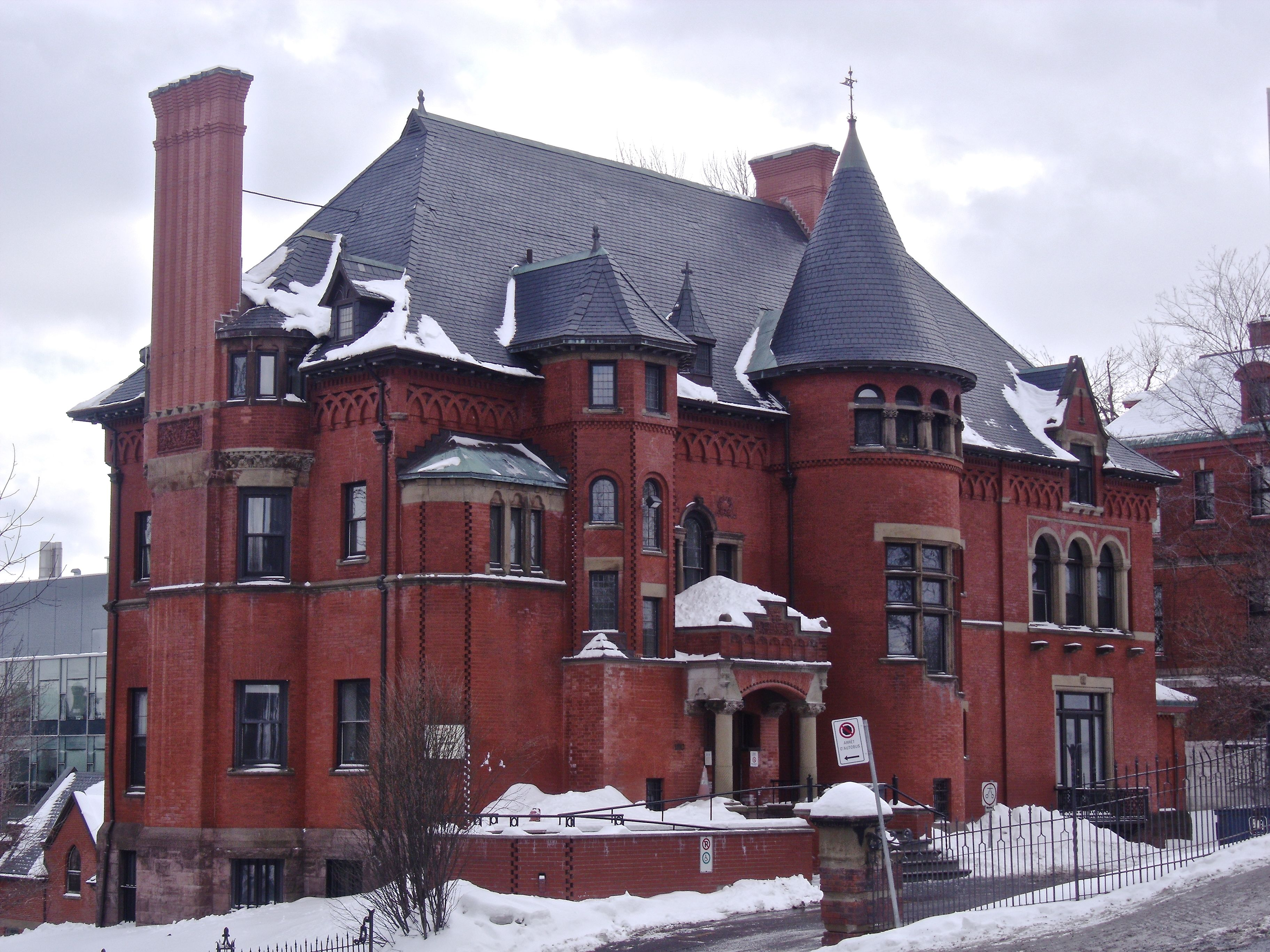 H. Vincent Meredith Residence (1894), 1110, Pine avenue West, Montreal, Quebec, Canada.